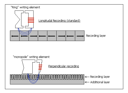 Scheme of perpendicular recording technology.